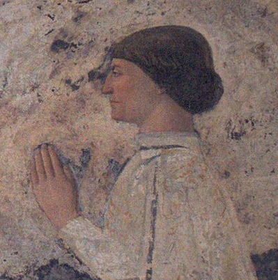 Painting Sigismondo Pandolfo Malatesta praying in front of St. Sigismondo (by Piero della Francesca, 1451); Relic Chapel of the Malatesta Temple, Rimini, Italy